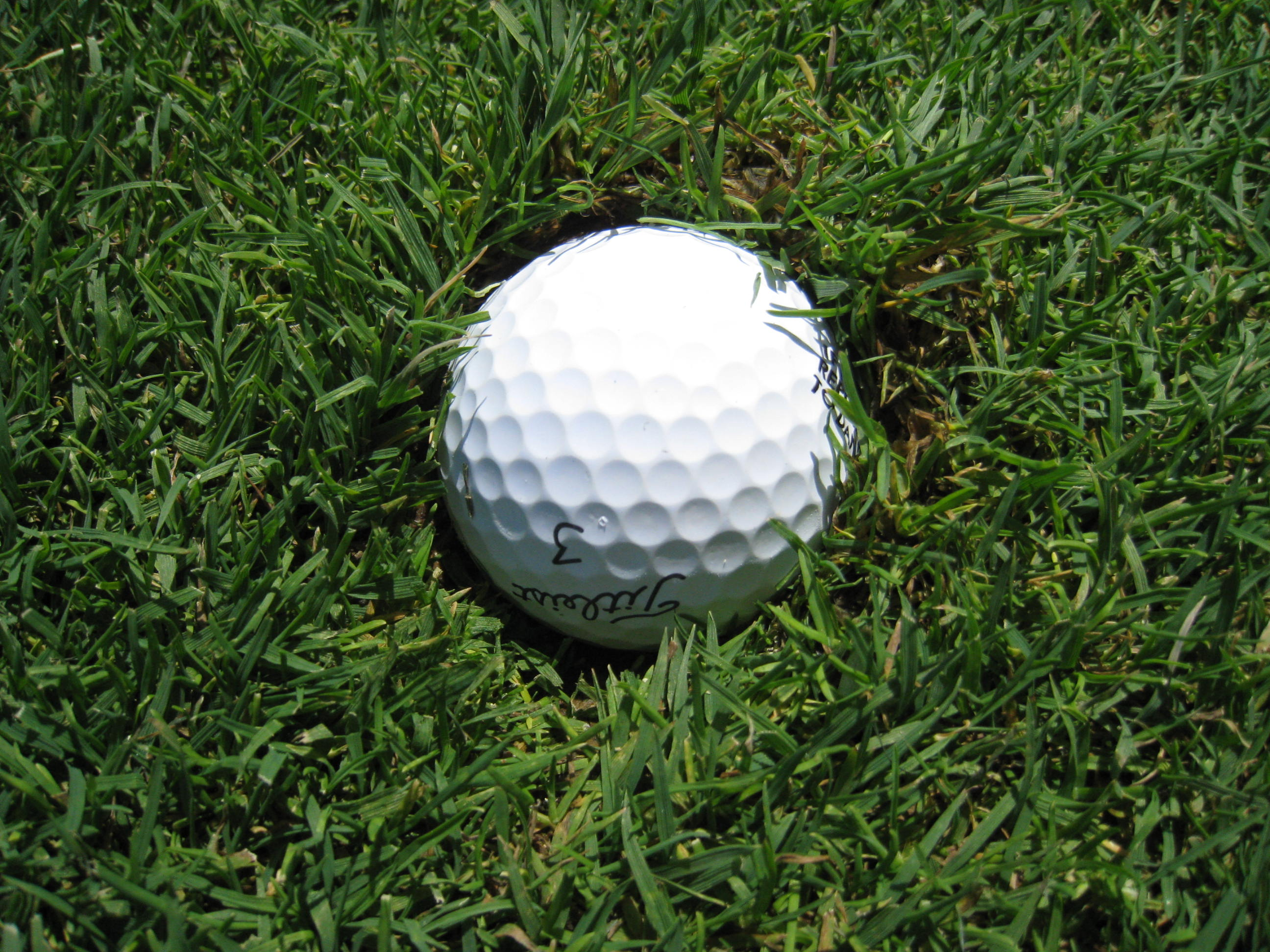 Golf ball